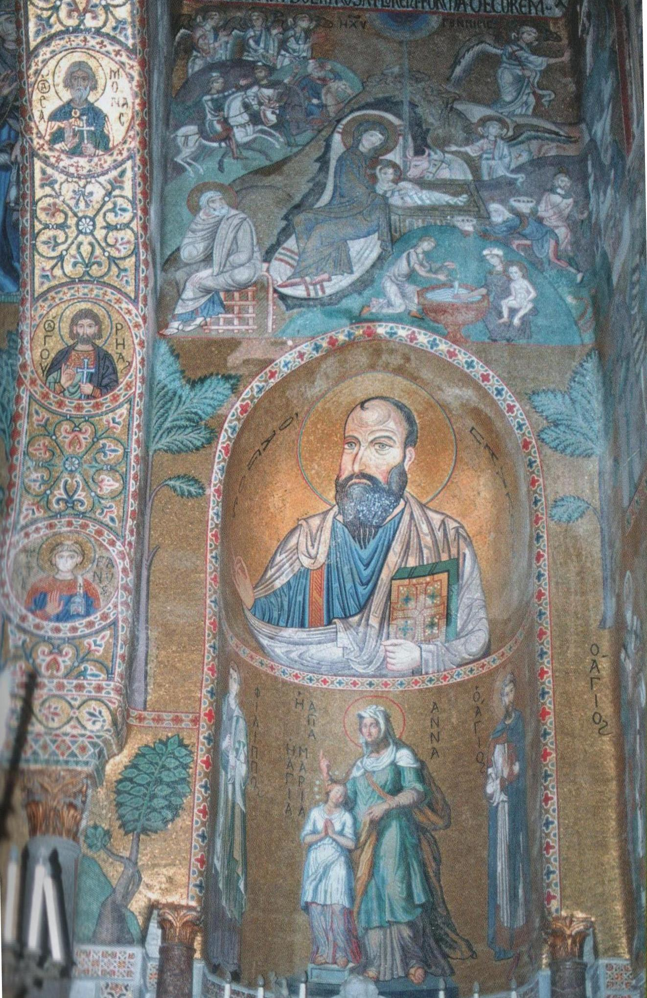 St Paul apse in Cappella Palatina